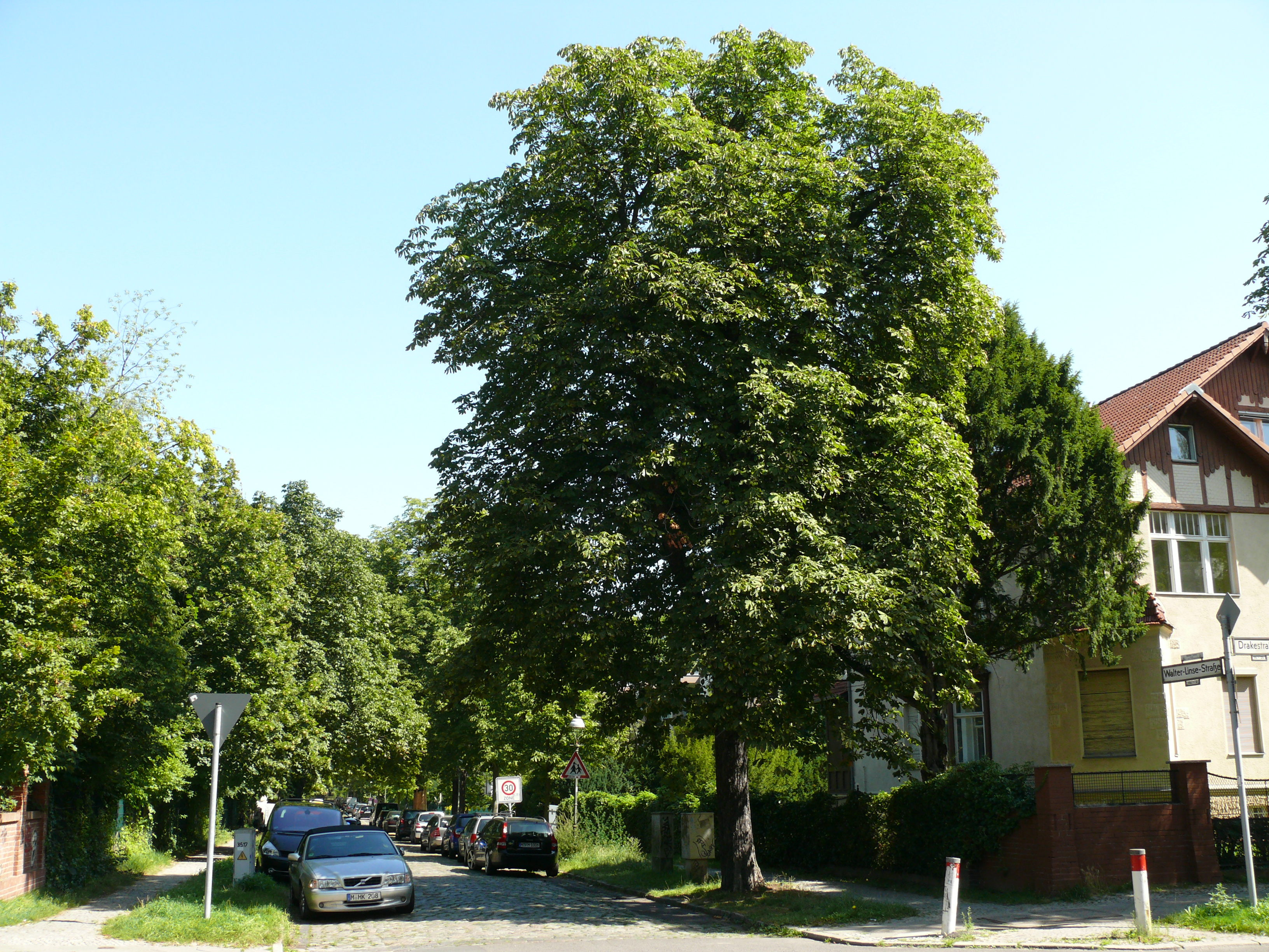 Berlin-Lichterfelde Walter-Linse-Straße